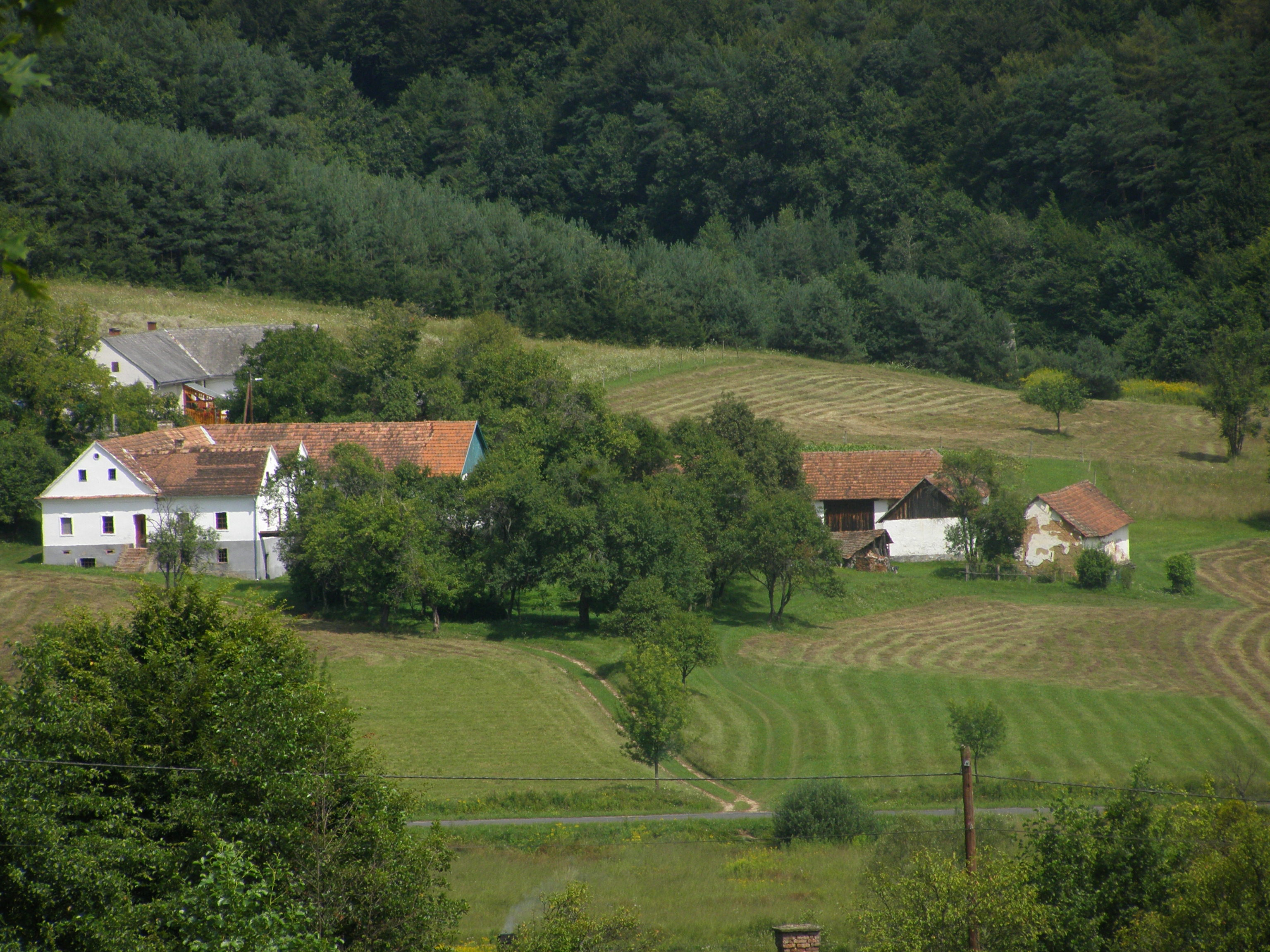 Šolini rani (Horváth family) in Apátistvánfalva (Števanovci), Vendvidék